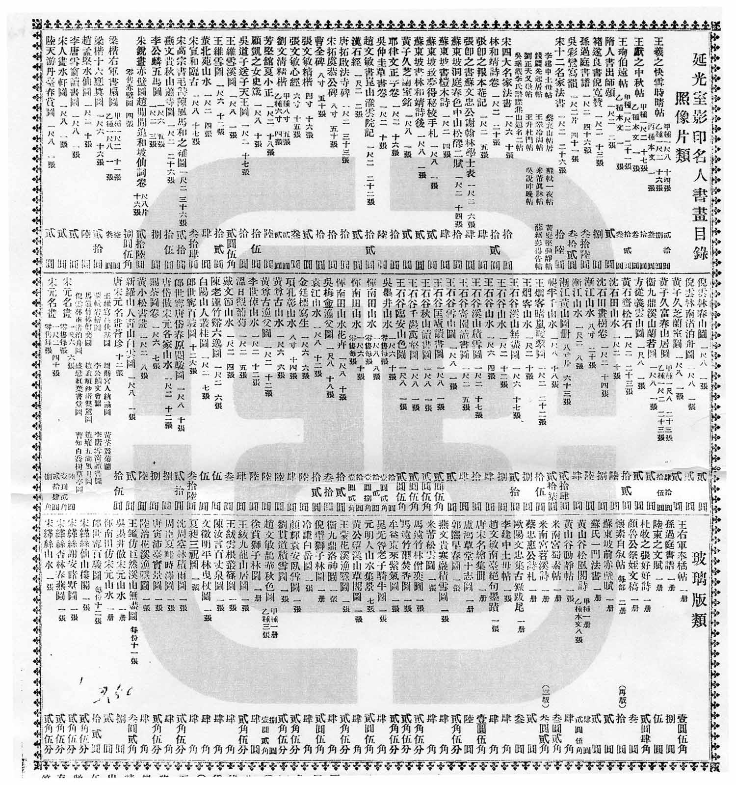 A more complete art listing of Yanguangshi.